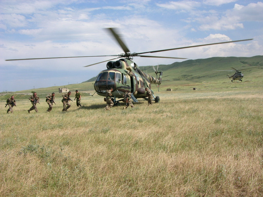 Georgian soldiers board Mi-8 HIP helicopters during training in Georgia. Seventy U.S. military members of the Georgia Sustainment and Stability Operations Program are providing training to Georgian battalions in preparation for their scheduled deployment to Iraq.